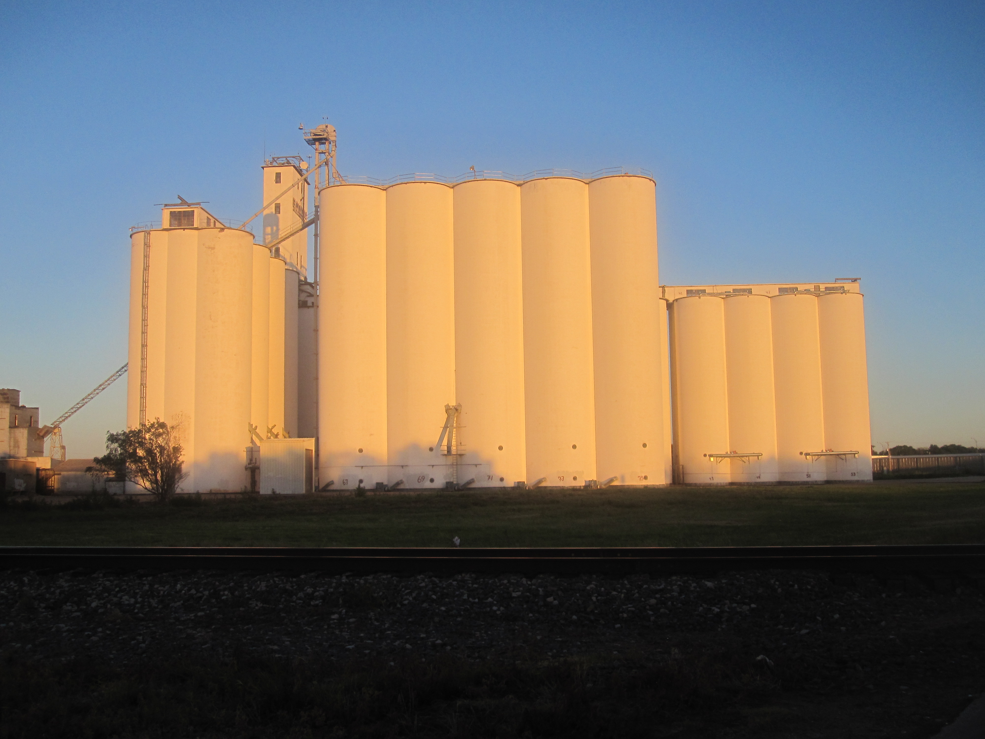 I took photo with Canon camera in Liberal, KS.